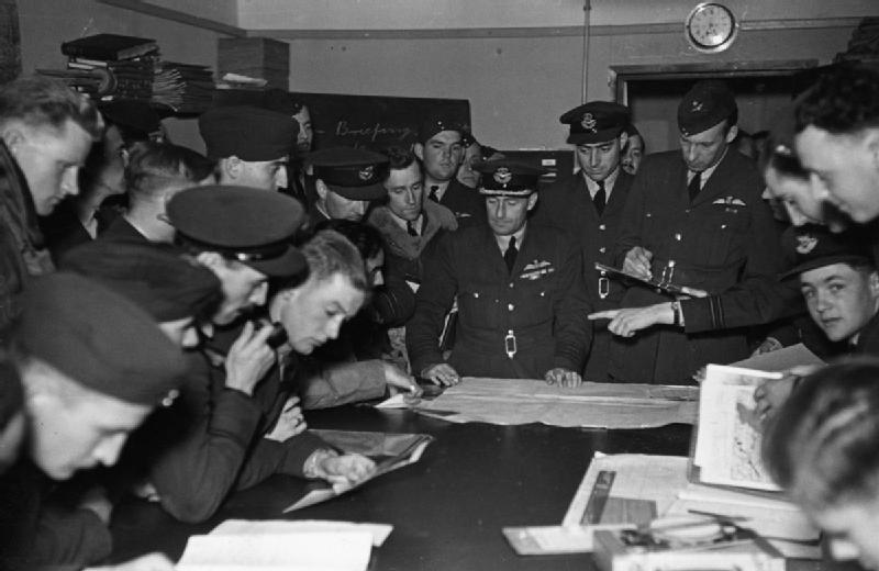 RAF Bomber Command 1940 Wellington crews studying maps at a briefing with the station commander, 2 September 1940.